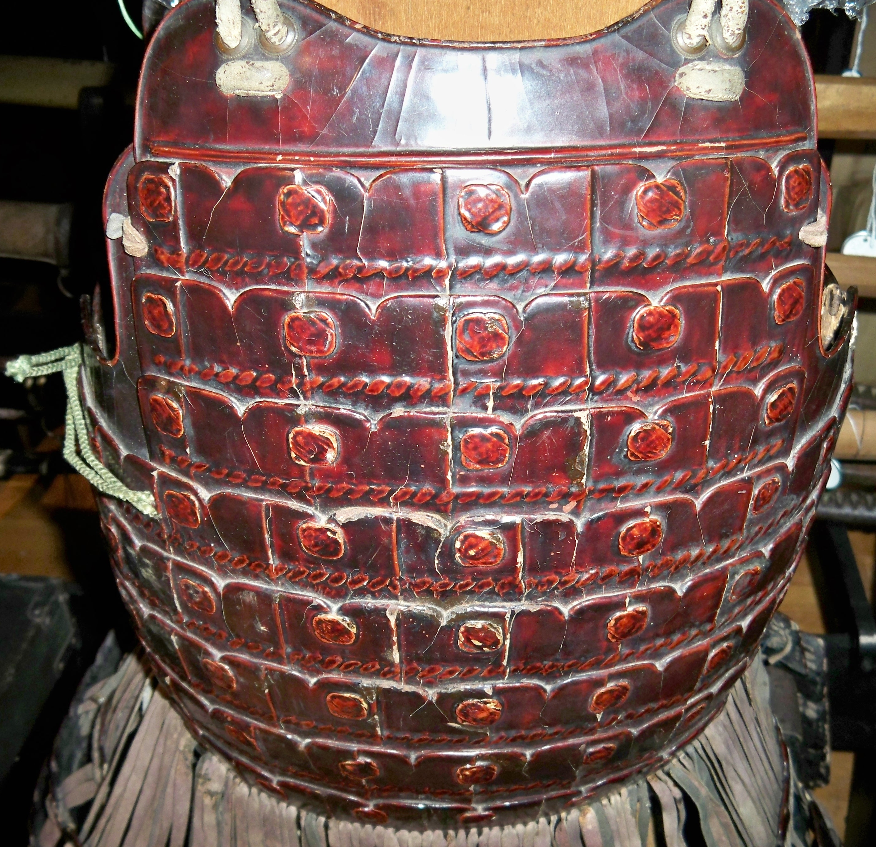 Munemenui, hishinui, kawa odoshi, kiritsuke iyozane dou (dō)